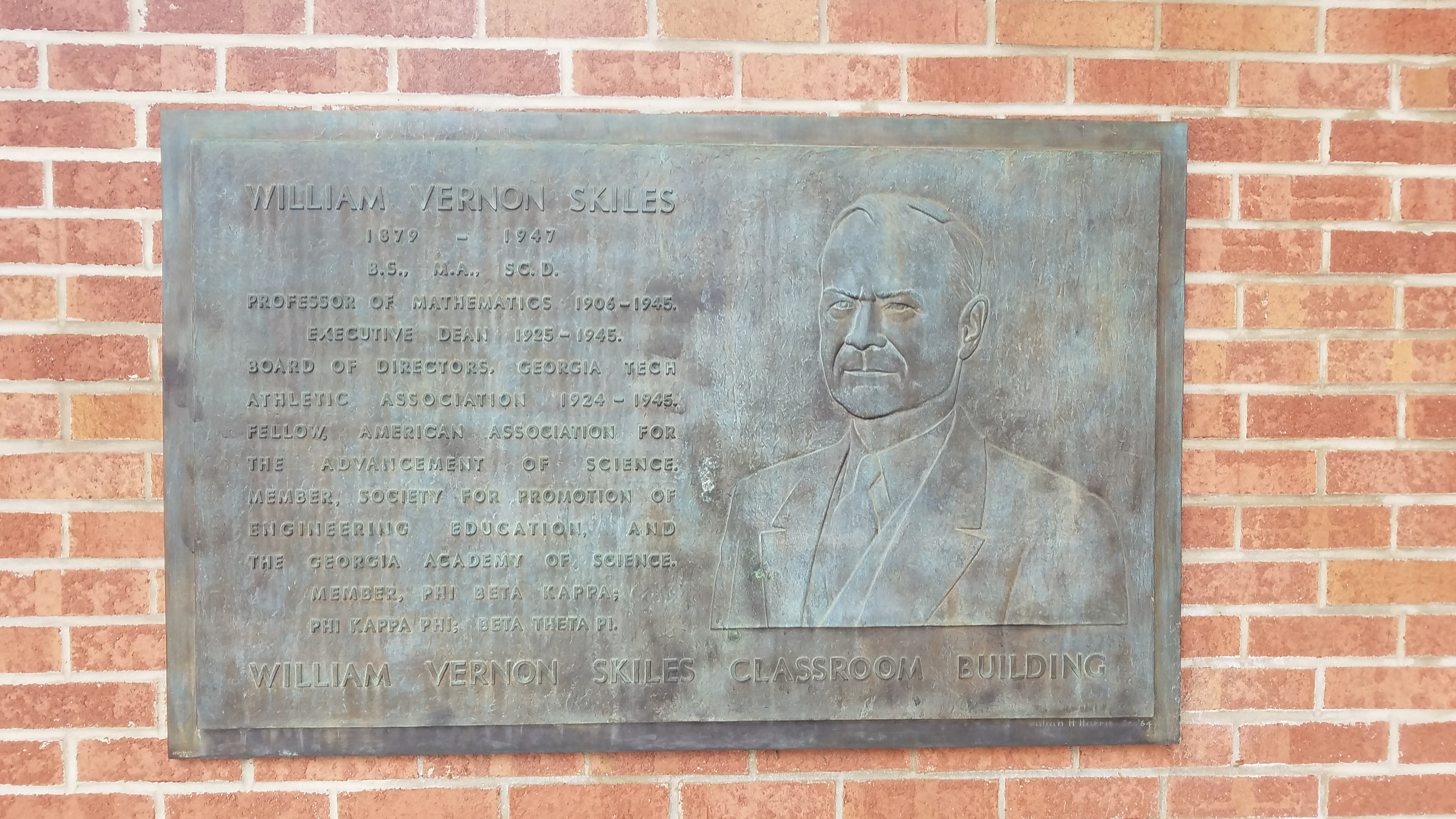 Skiles Classroom Building sign on the main campus of the Georgia Institute of Technology, Atlanta, Georgia, United States